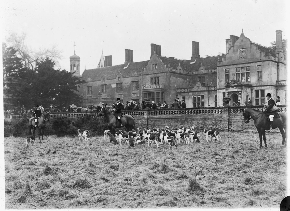 "Meet of foxhounds at Hardwick House," photograph taken at Hardwick House, Suffolk, near Bury St Edmunds, and home of the Cullum Baronets. Photograph courtesy of the Spanton-Jarman Collection, Bury St Edmunds Past and Present Society, Bury St Edmunds, Suffolk.